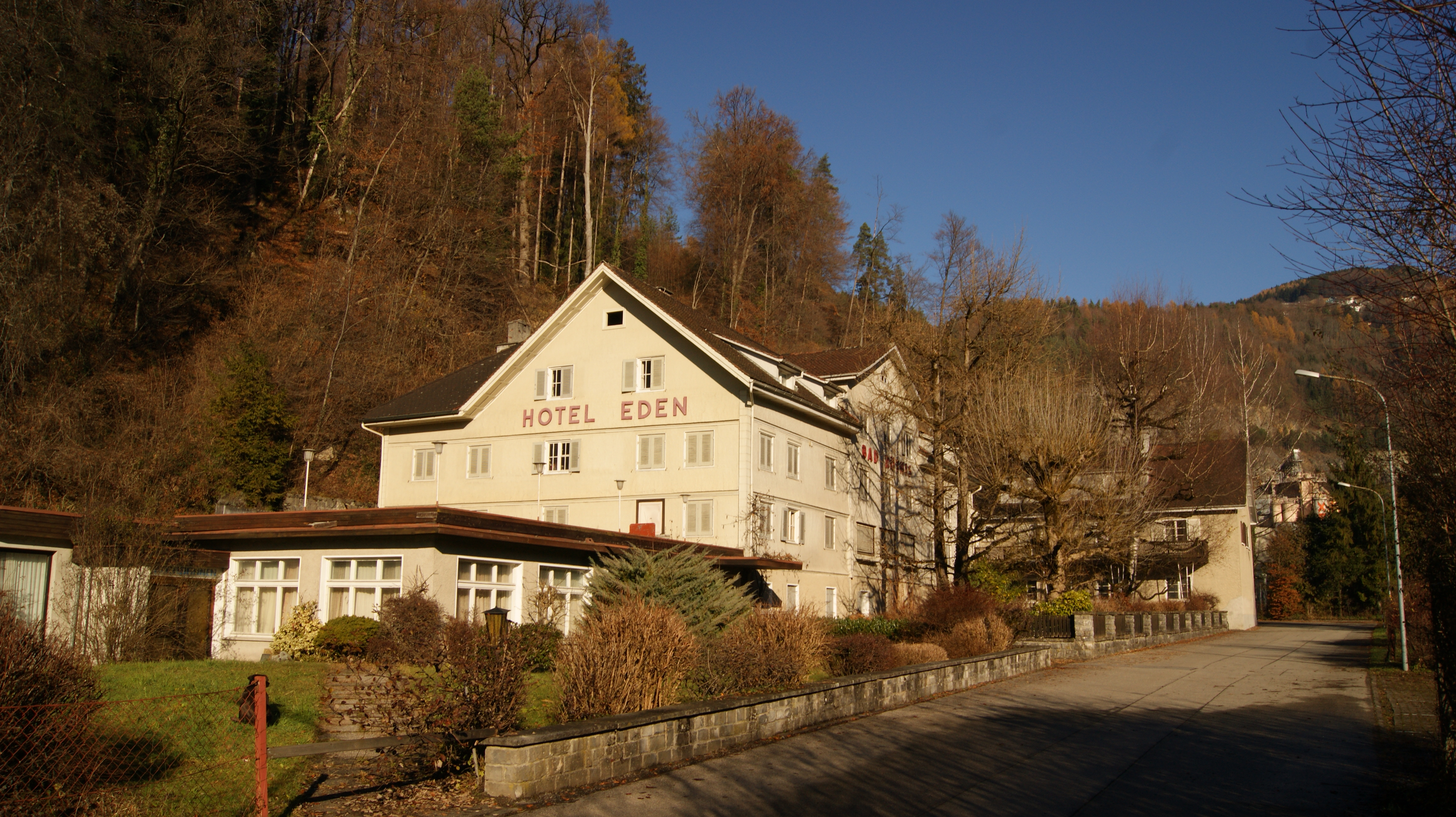 Spa Roethis - Hotel Eden in Roethis, Vorarlberg, Austria.